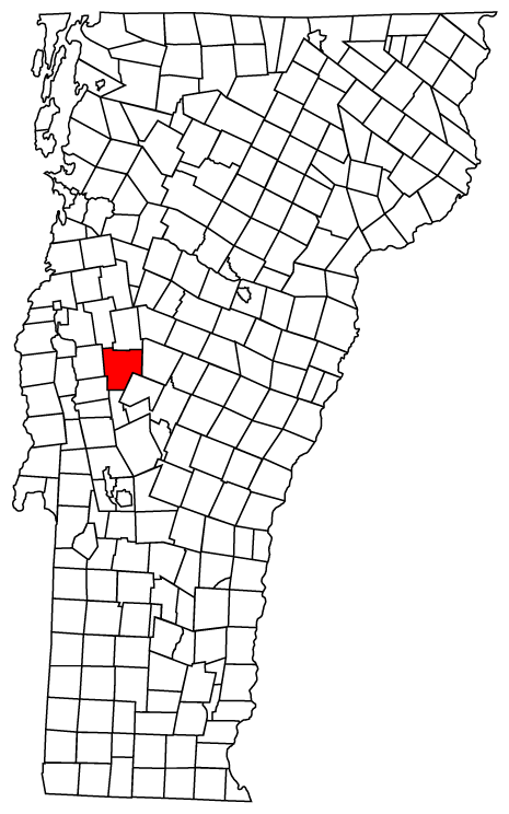 Description: Map of Vermont towns with Ripton highlighted Source: Map created by Jared C. Benedict on 26 March 2004. Copyright: © Jared C. Benedict.